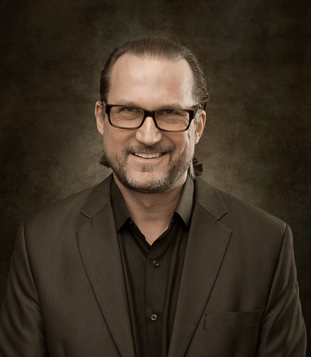 Max Schultz. Guitar Player